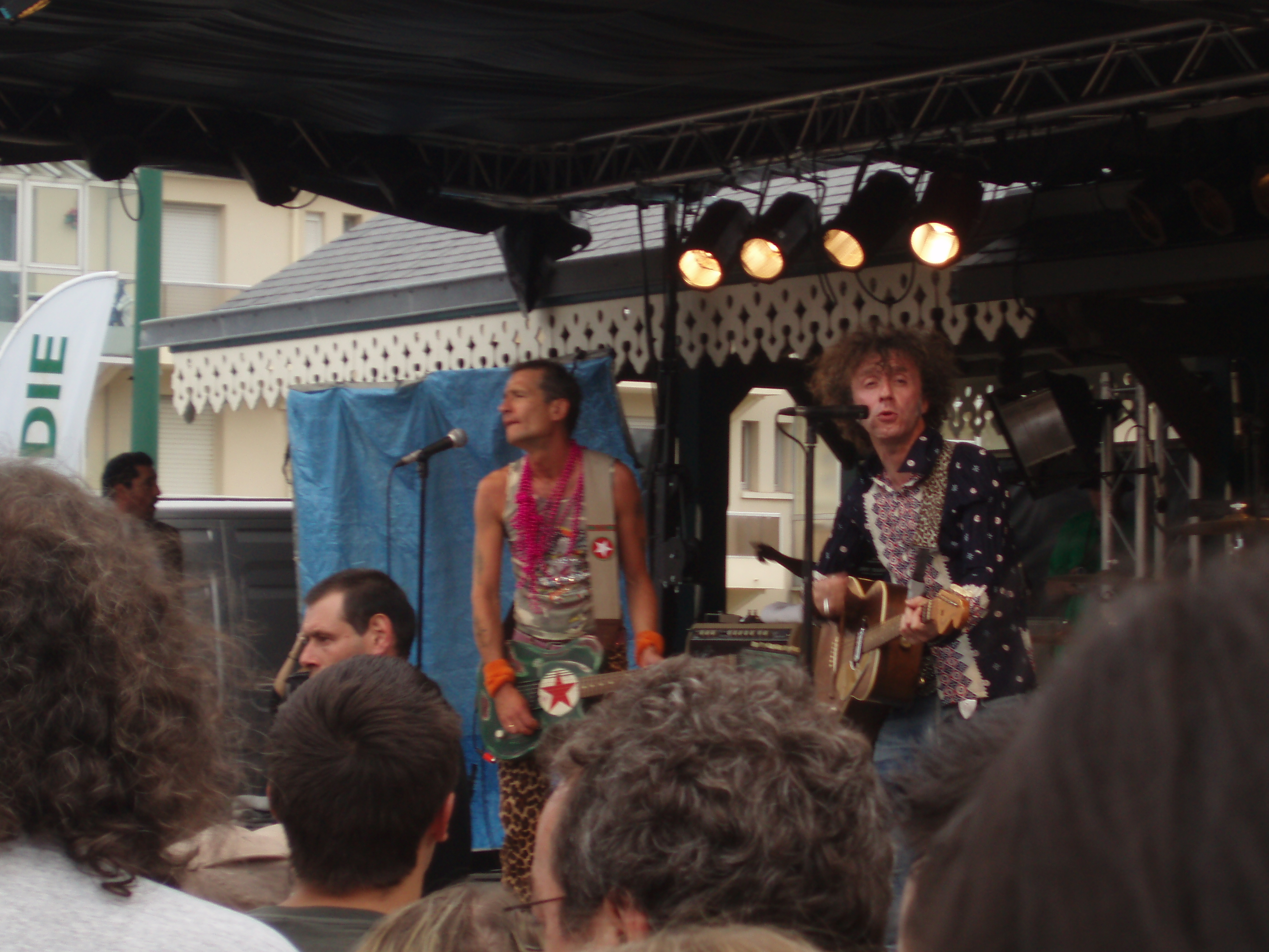 Photo of "Les Wampas" rock band, taken at the "Festival de Quend du film grolandais" in Quend-Plage-les-Pins (France). September 2006